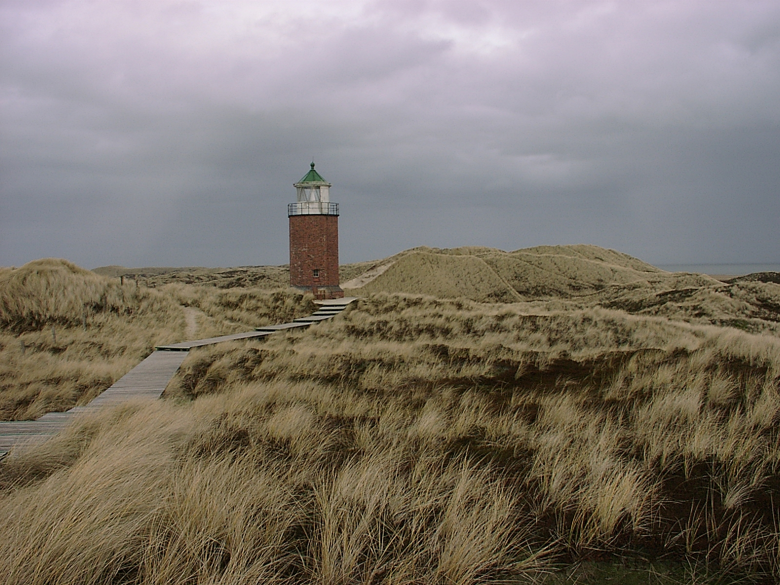 Old lighthouse Rotes Kliff near Kampen on Sylt island